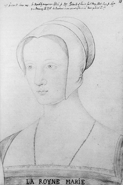 Mary Tudor, Princess of England, second daughter of King Henry VII. of England and his wife Elizabeth of York, sister of King Henry VIII. of England, second wife of King Louis XII. of France, Queen of France and wife of Charles Brandon, Duke of Suffolk, A drawing of Mary Rose Tudor probably from 1514-1515, when she was Queen of France, Ashmolean Museum, Oxford